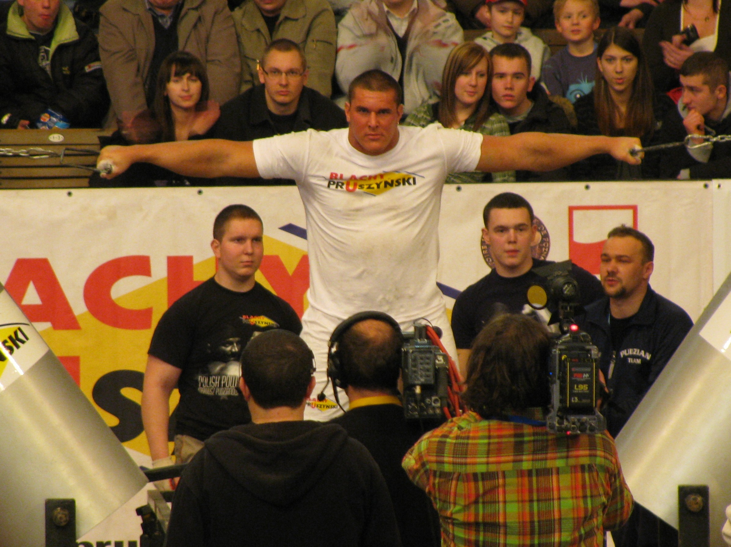 Mateusz Baron - a strength athlete from Poland at Hercules Hold.